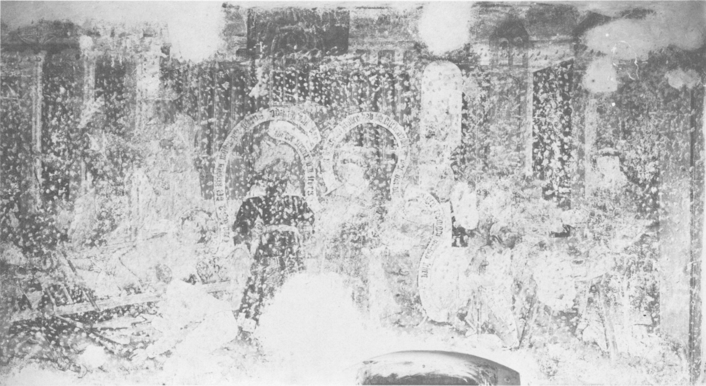 Wall painting "legend of St. Laurentius" in Bühlweg chapel in Ortenberg, Baden-Württemberg, Germany, before restauration in 1902